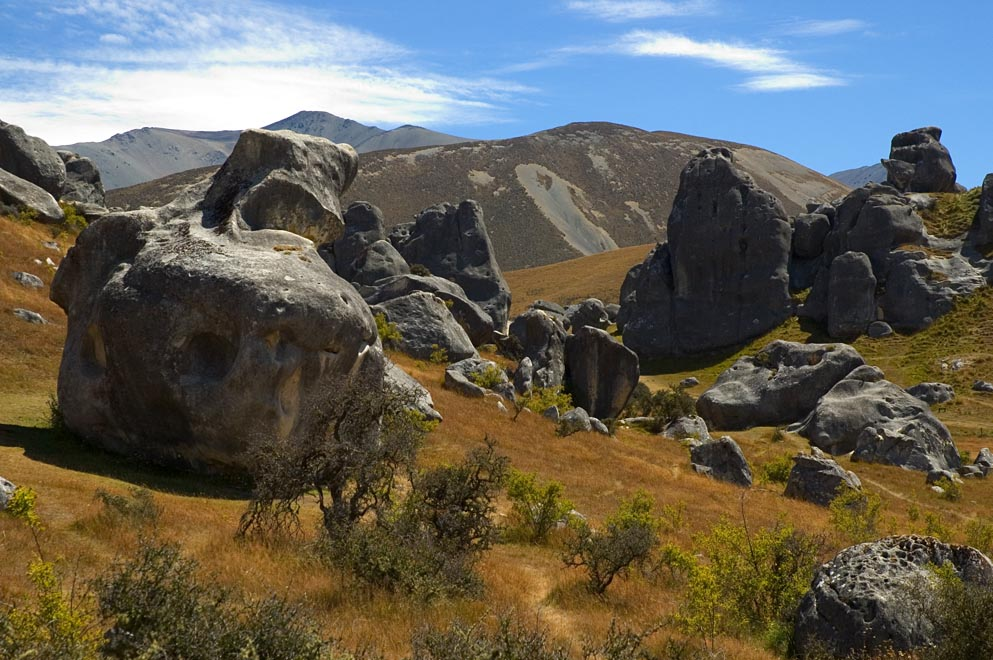 Limestone rocks at Castle Hill, New Zealand's South Island.